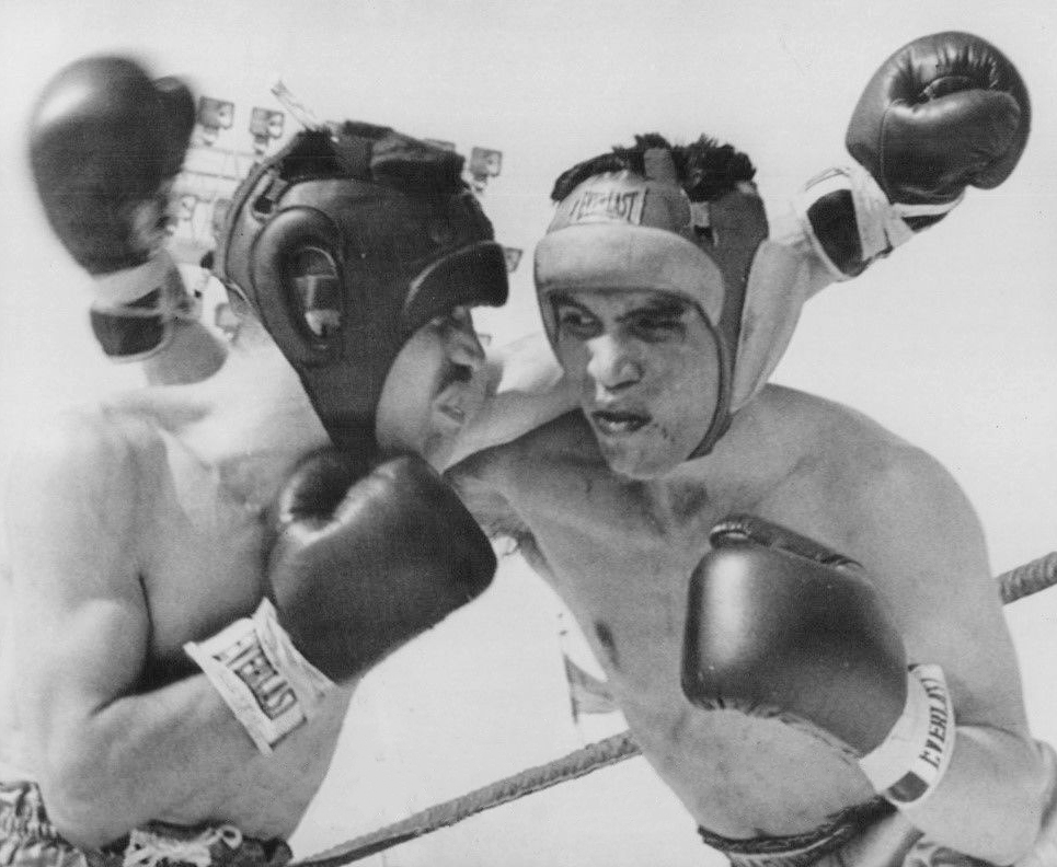 LG18 '64 Wire Photo NICK SPANAKOS EDILBERTO MEDINA Worlds Fair NY Olympic Trials